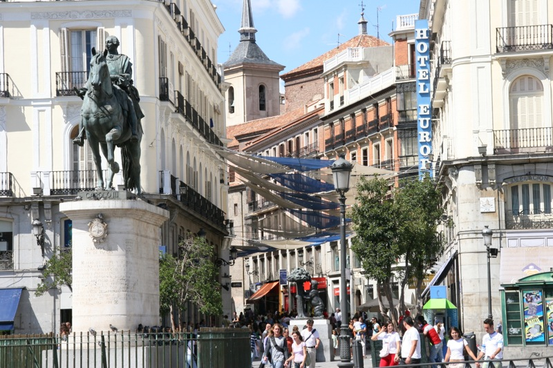 Partial view of Puerta del Sol (square) in Madrid (Spain). At the left, Monument to Charles III. In the background, Calle del Carmen (street).